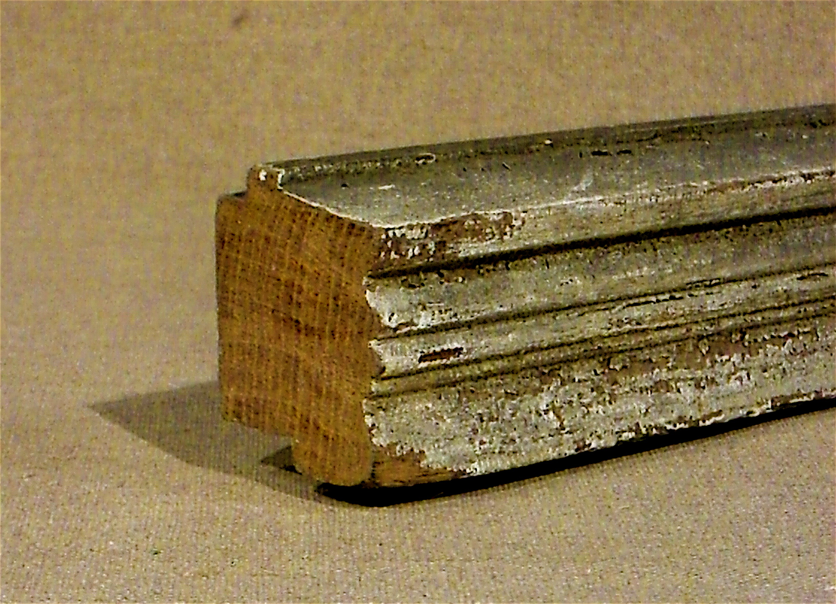 Piece of window frame with old linseed oil paint.